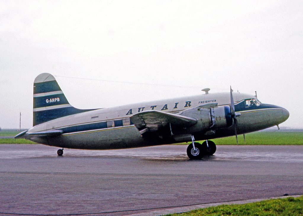 Vickers 639 Viking I G-AHPB of Autair at Amsterdam Schiphol in 1967